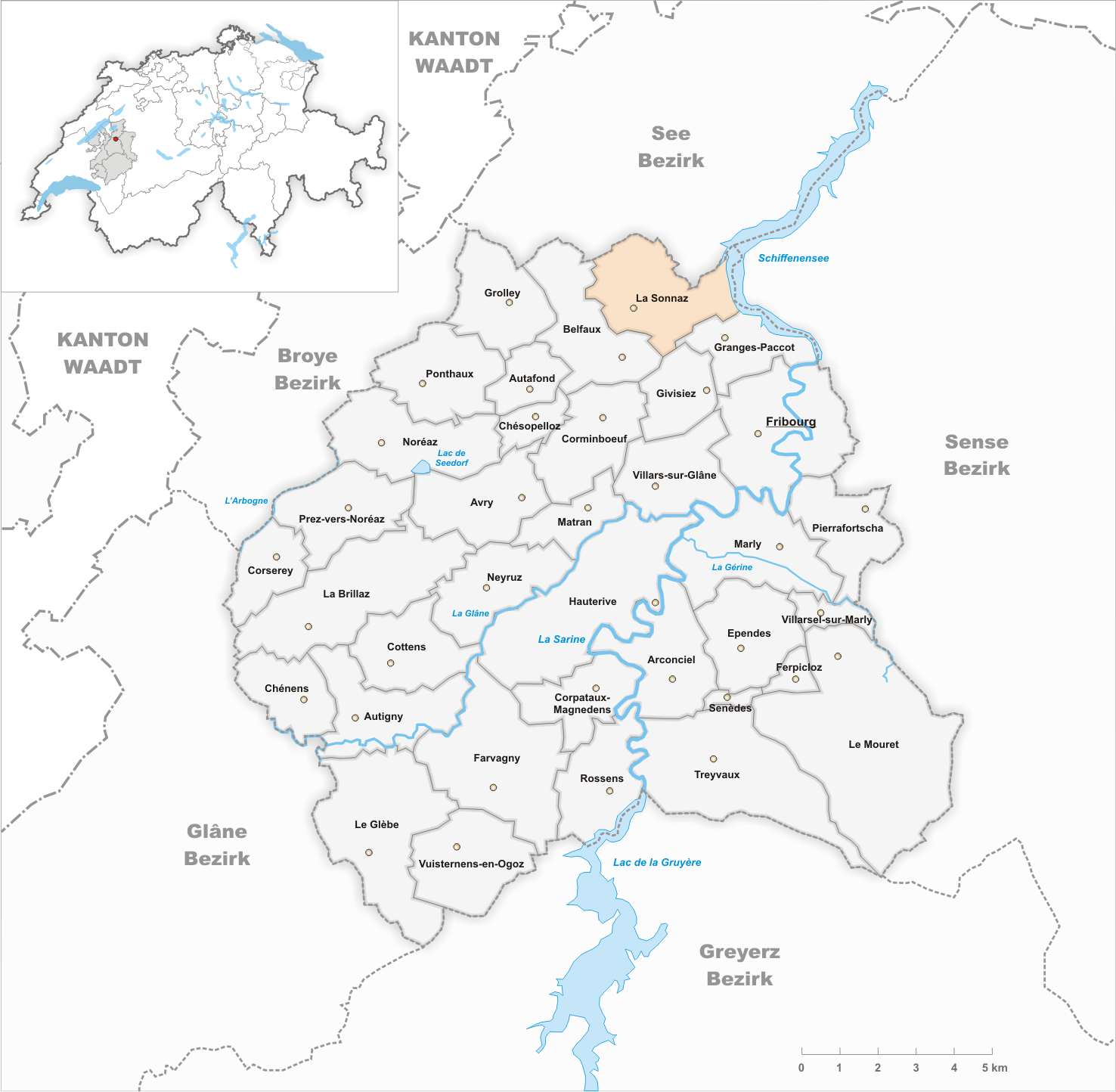 Municipality La Sonnaz